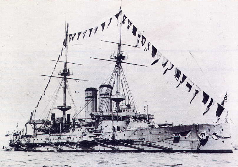 British battleship HMS Montagu (1901) dressed overall